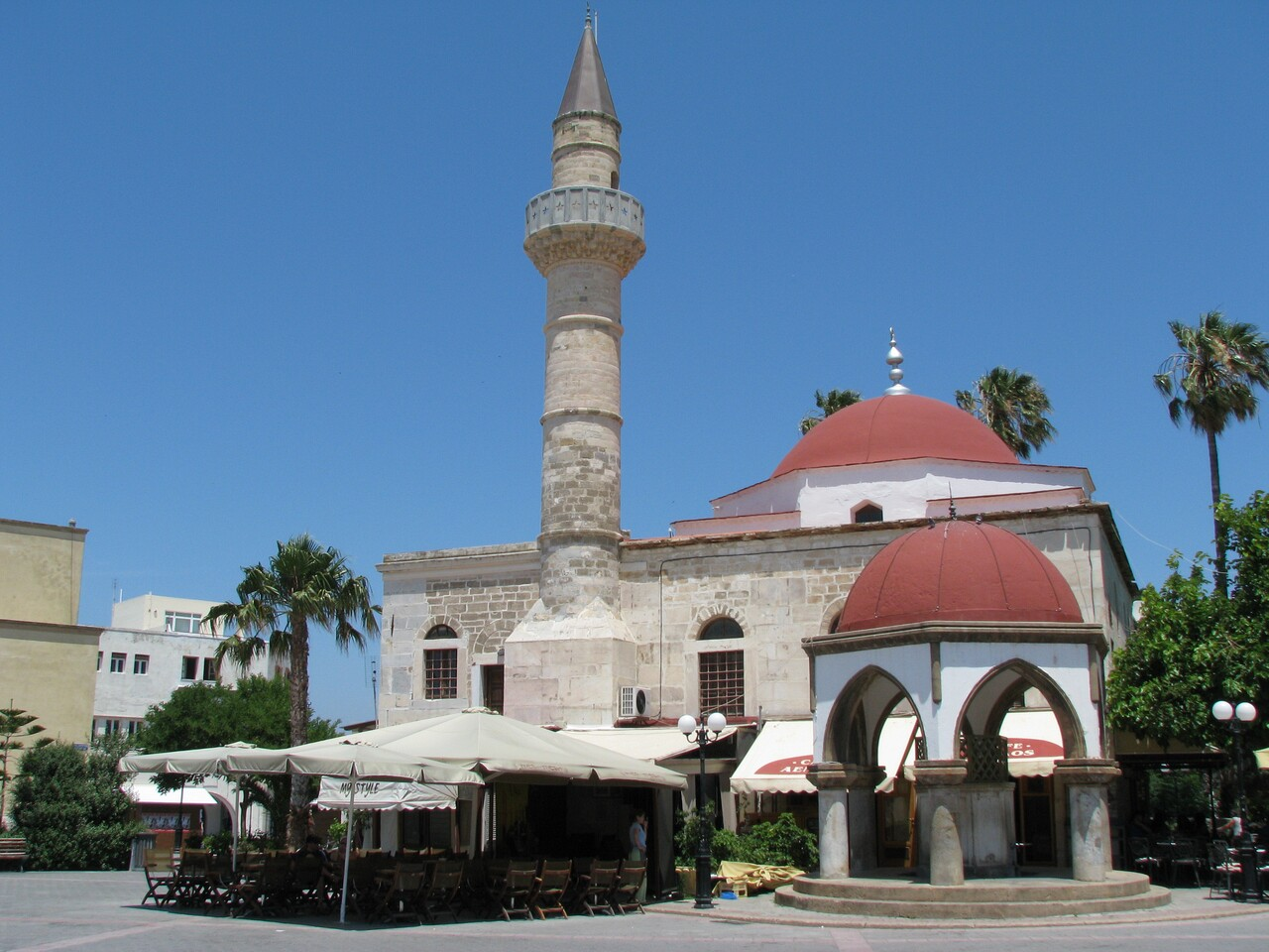 Defterdar Mosque built in the year 1725 and belongs to the Islamic community of Kos. It is still used by the 50 Muslim families, who live mostly in a nearby Platani town, but it is not open to the public.